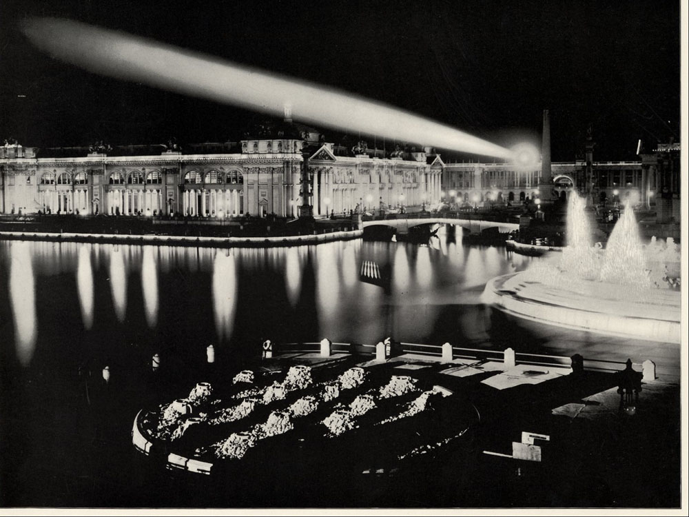 Agricultural Building at Night, from North West. With spotlight or beacon of light shining across the lagoon Large photographic print from The White City (As It Was). Photographs by William Henry Jackson. World's Columbian Exposition. 1893. Digitial Identifier: GN90799d_JWH_001w World's Columbian Exposition Collection at The Field Museum